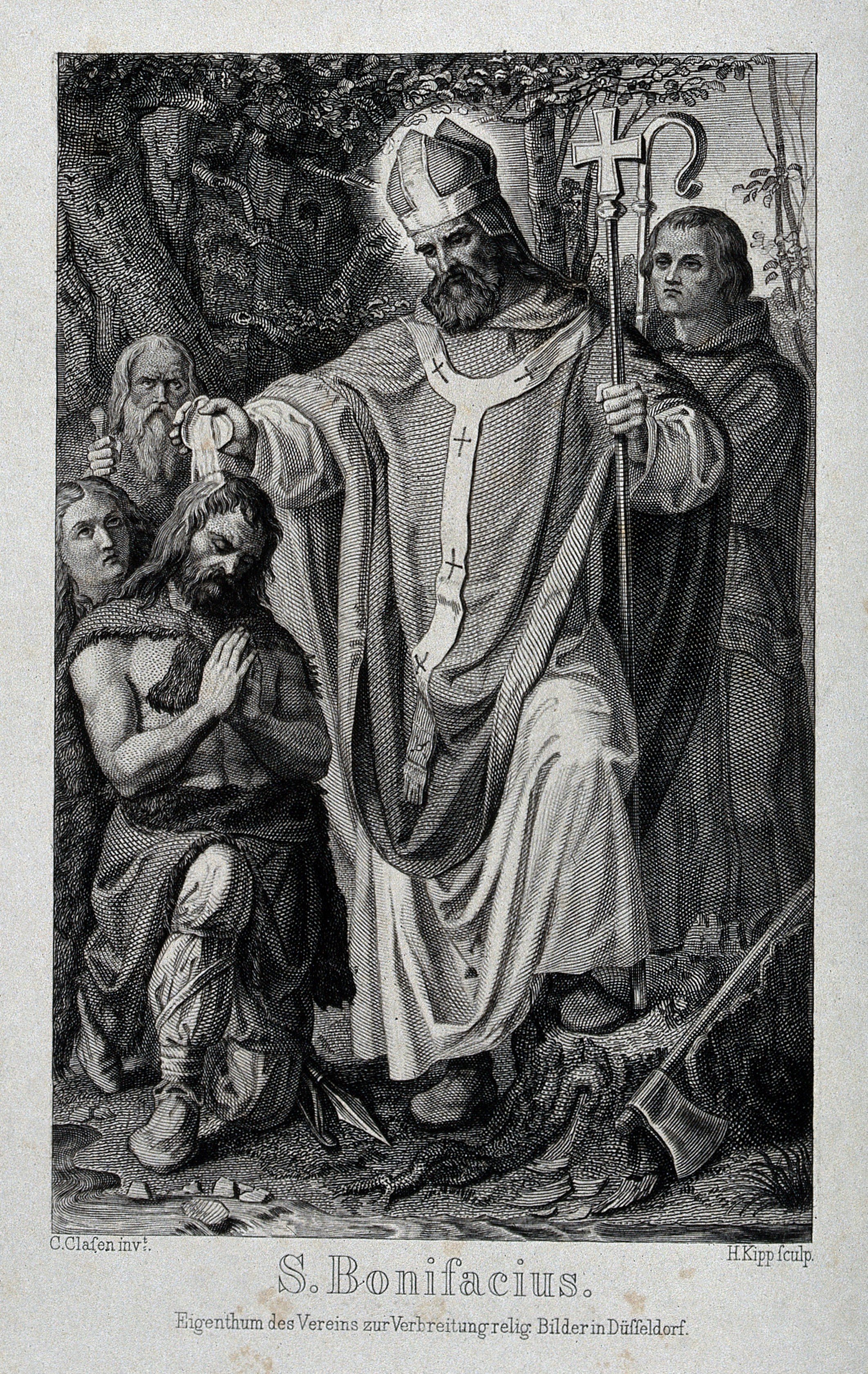 Saint Boniface. Engraving by Heinrich Kipp (1826–after 1854) after Karl Clasen (1812–1886). Iconographic Collections